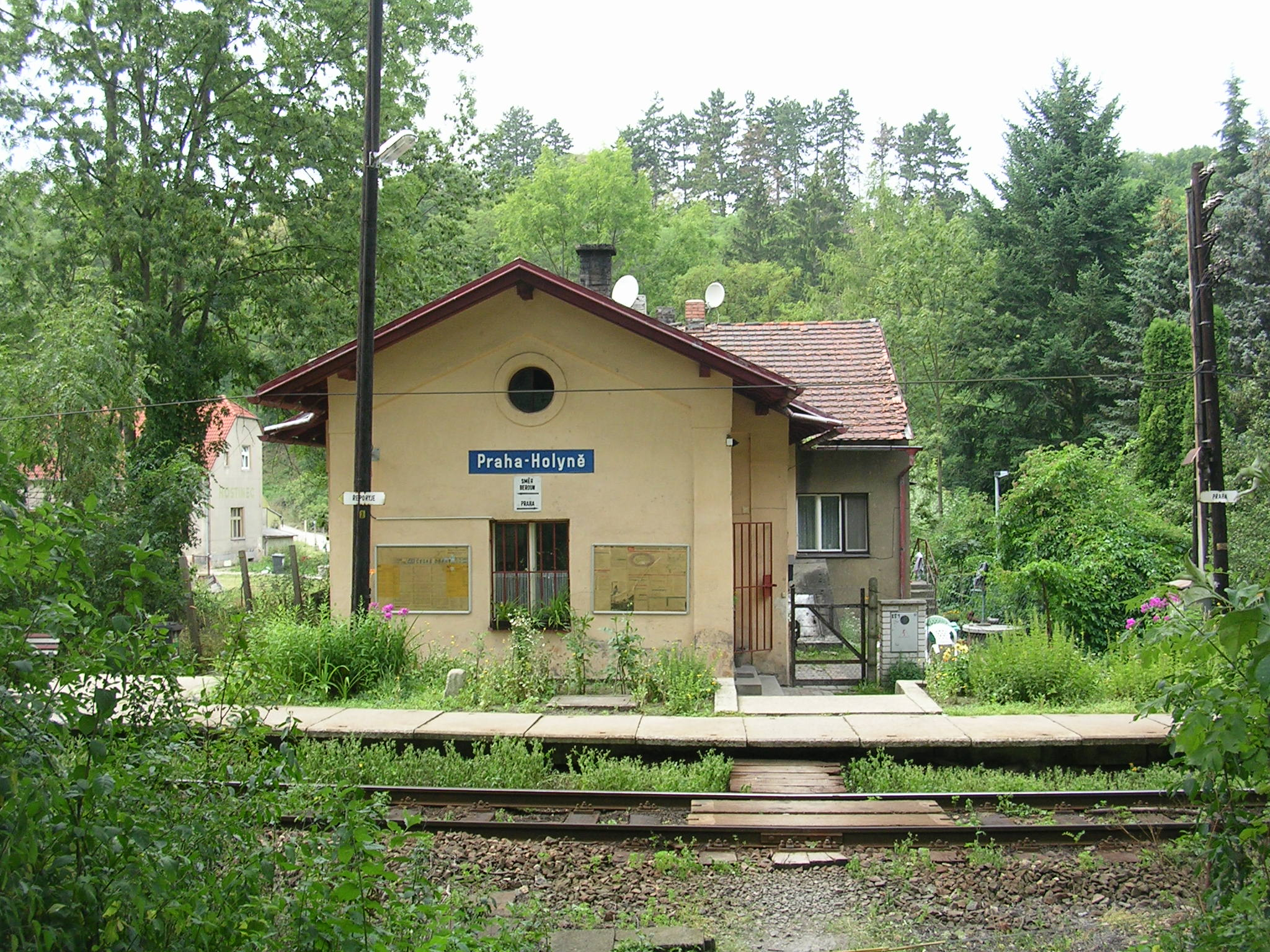 Holyně, Prague, the Czech Republic. A train stop.